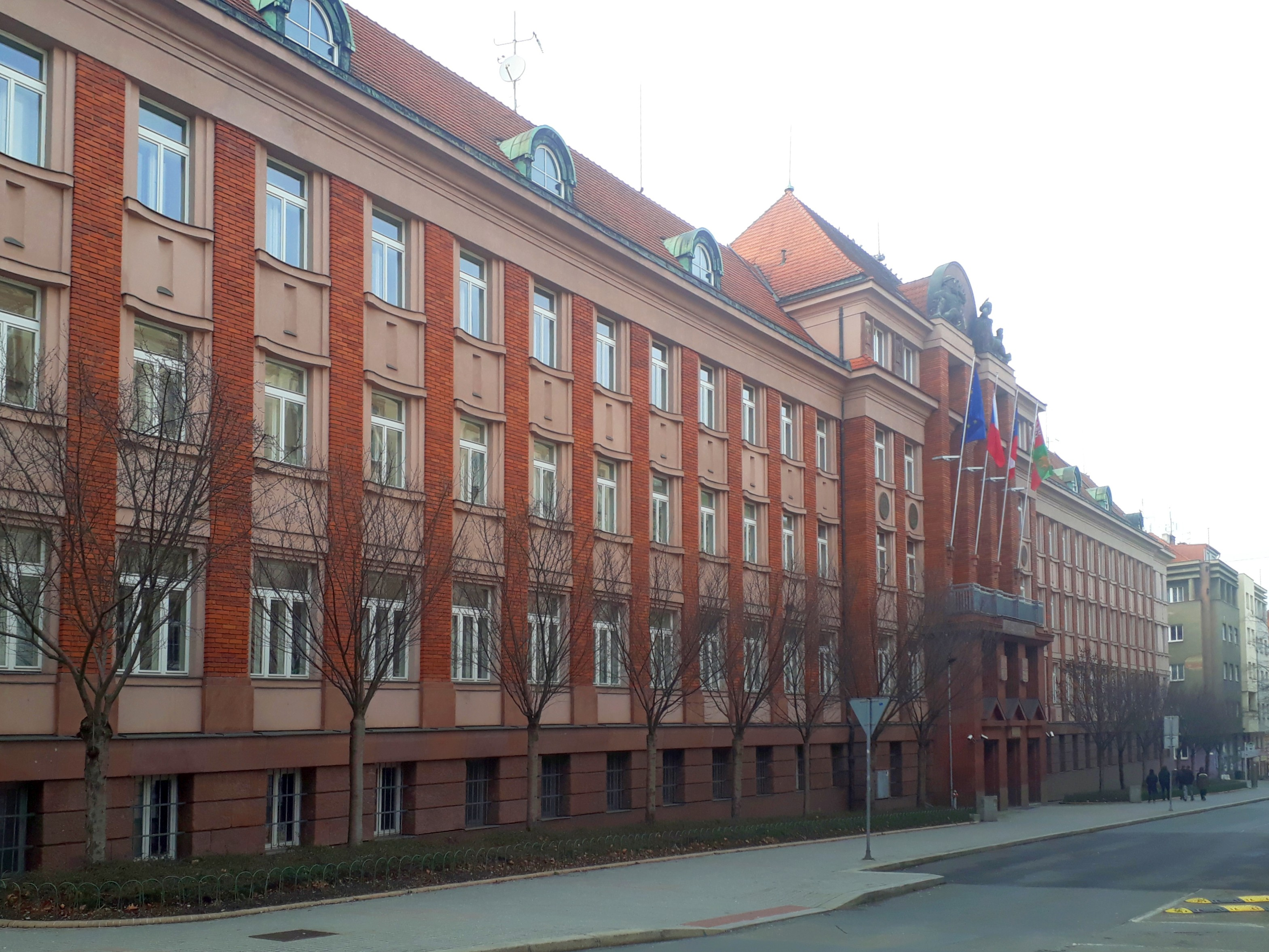 Rašín House from 1920s in Pilsen. Now the office of Plzeň Region.